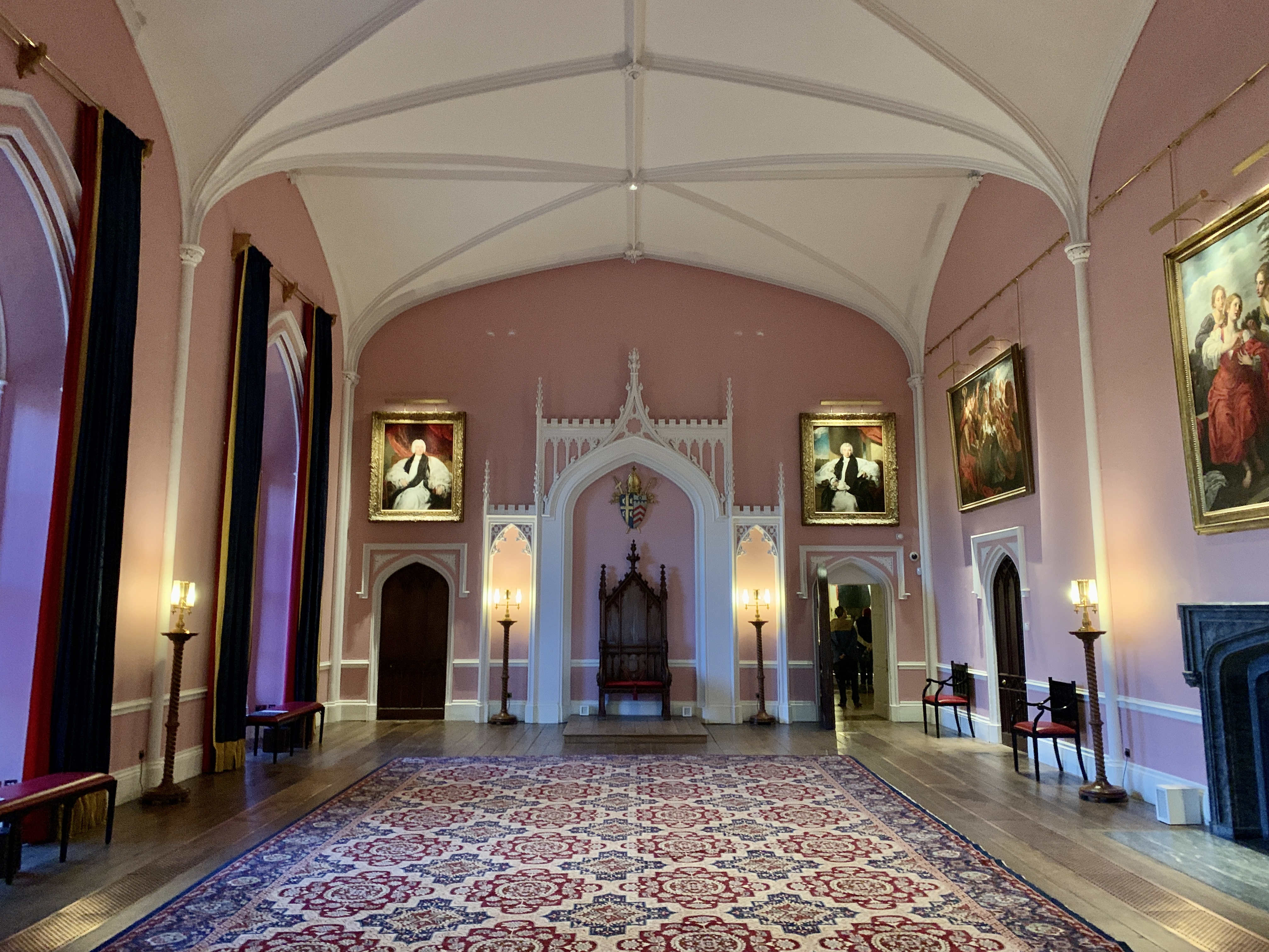 The Throne Room at Auckland Castle for the Prince-Bishop of Durham